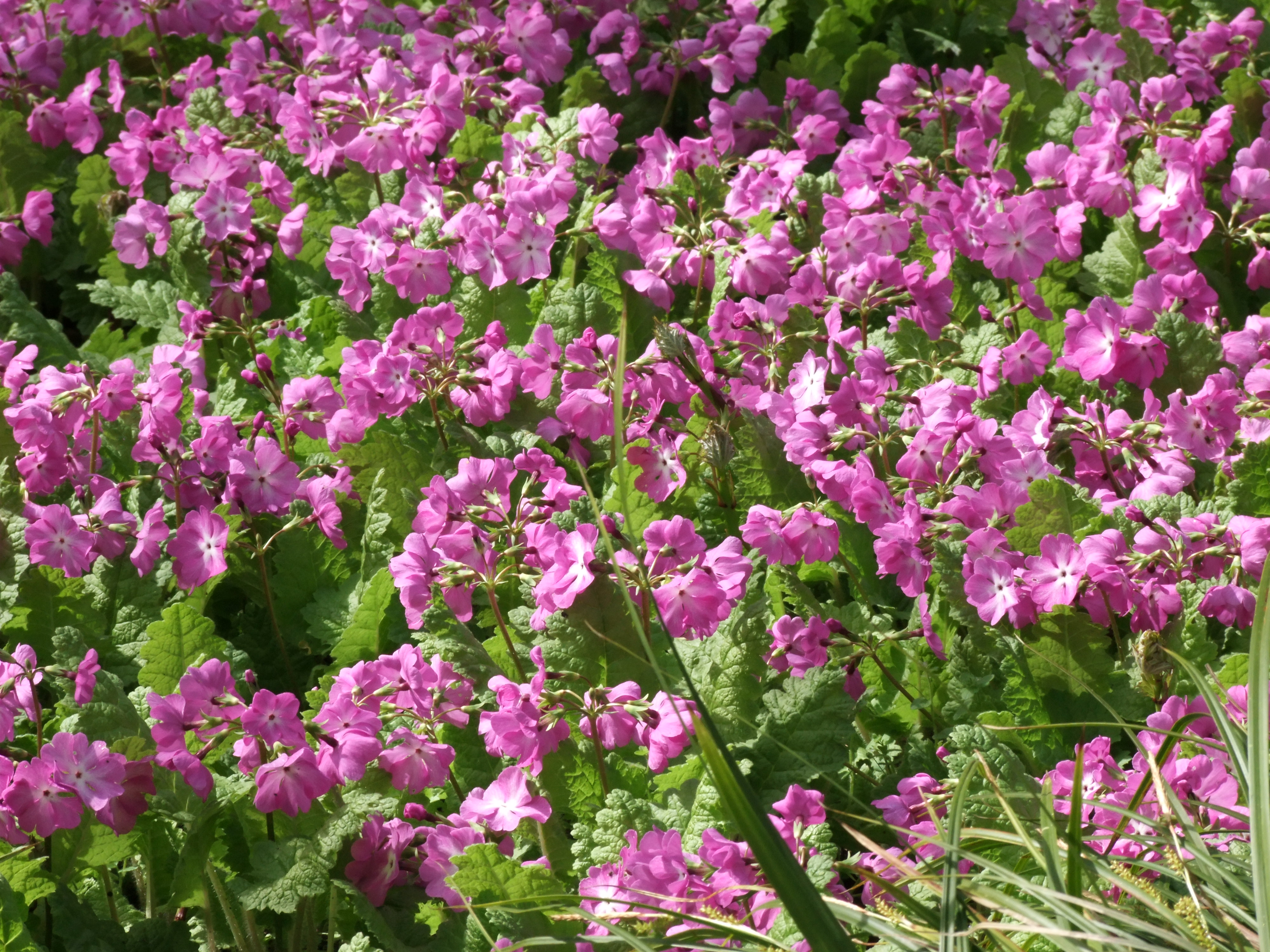 Primula sieboldii. At Botanical Gardens Berlin-Dahlem